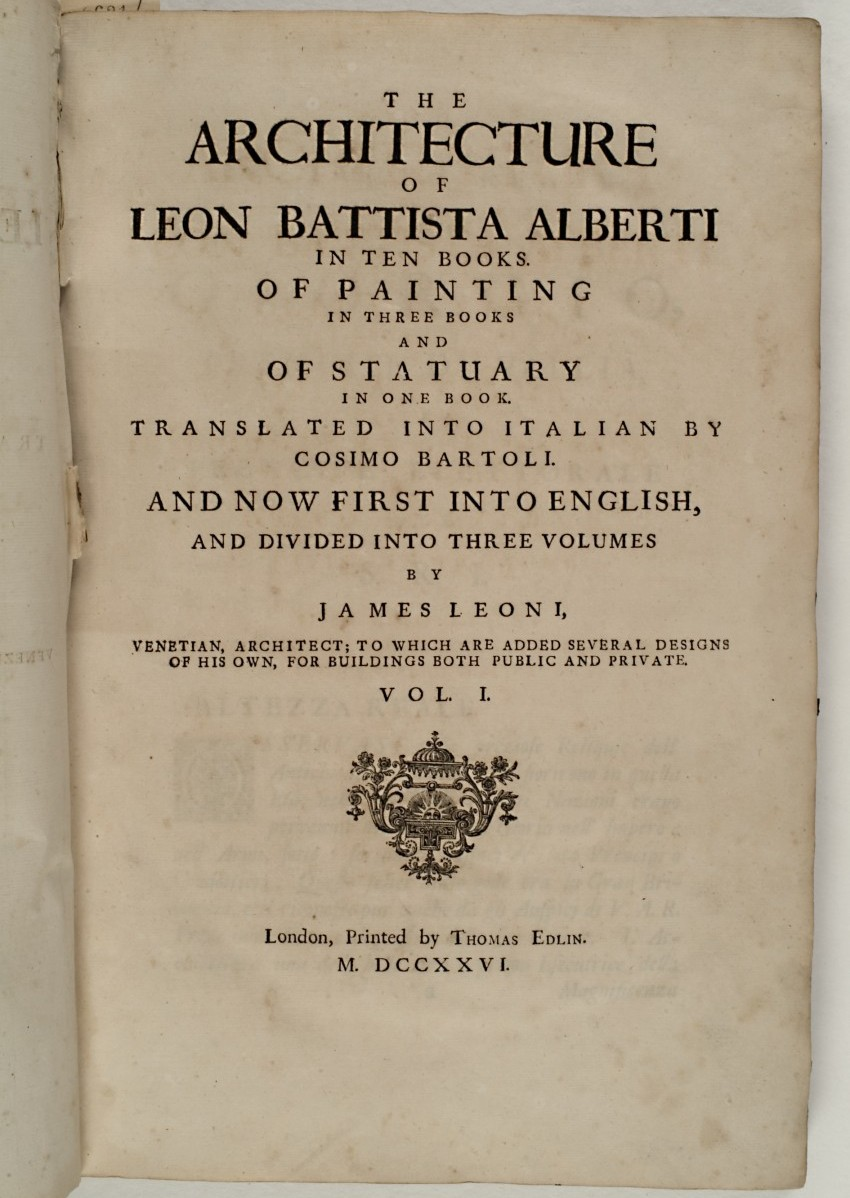 English title page of the first edition (1715 [the title says 1726?!]) of Giacomo Leoni’s translation of Alberti’s De Re Aedificatoria (1452). The book is bilingual, with the Italian version being printed on the left and the English version printed on the right. The Italian title page actually comes a page before the English title page.